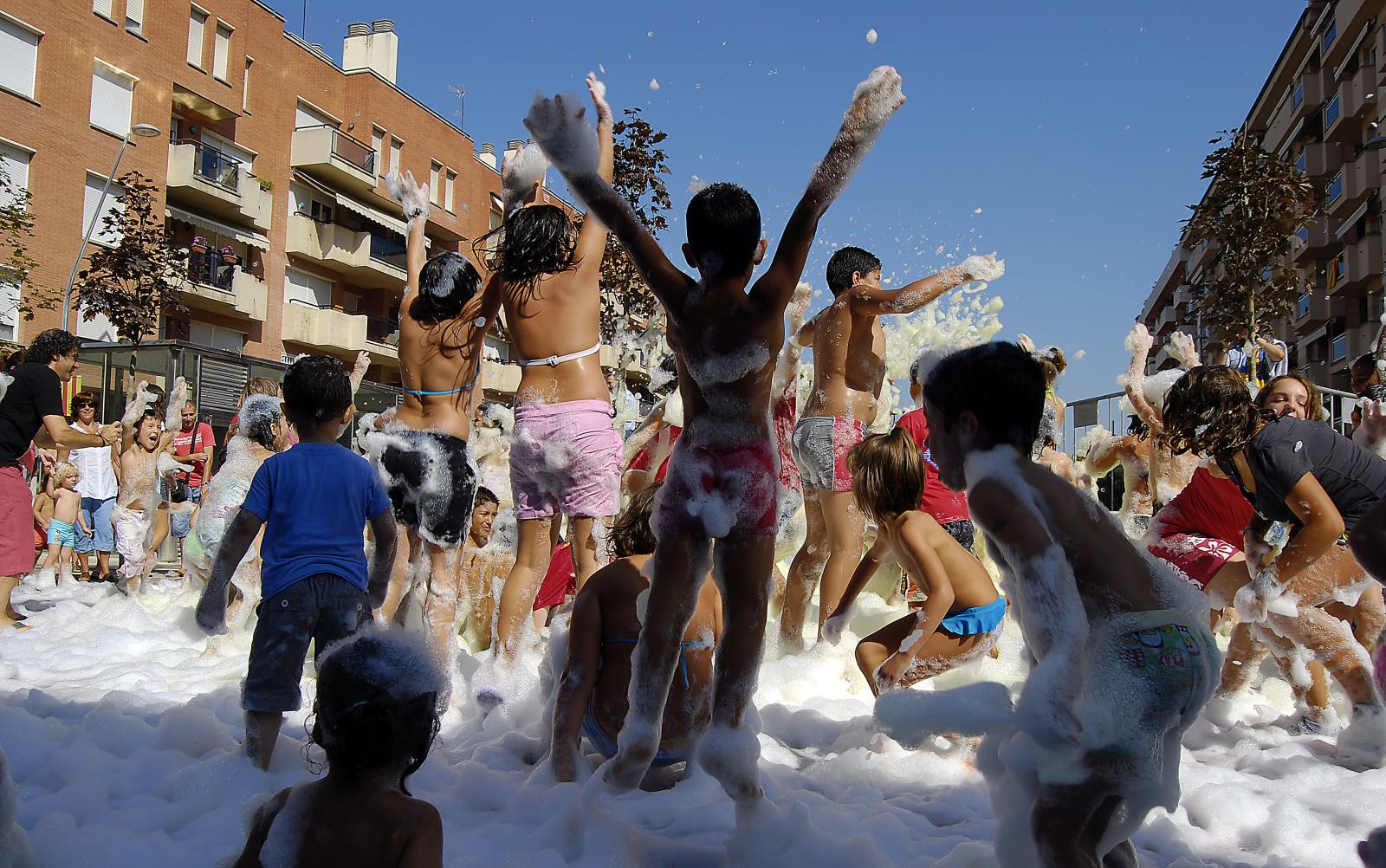 Foma party at Vic, Barcelona.